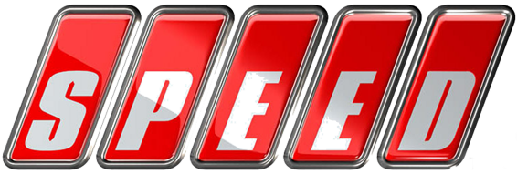 espeed channel logo